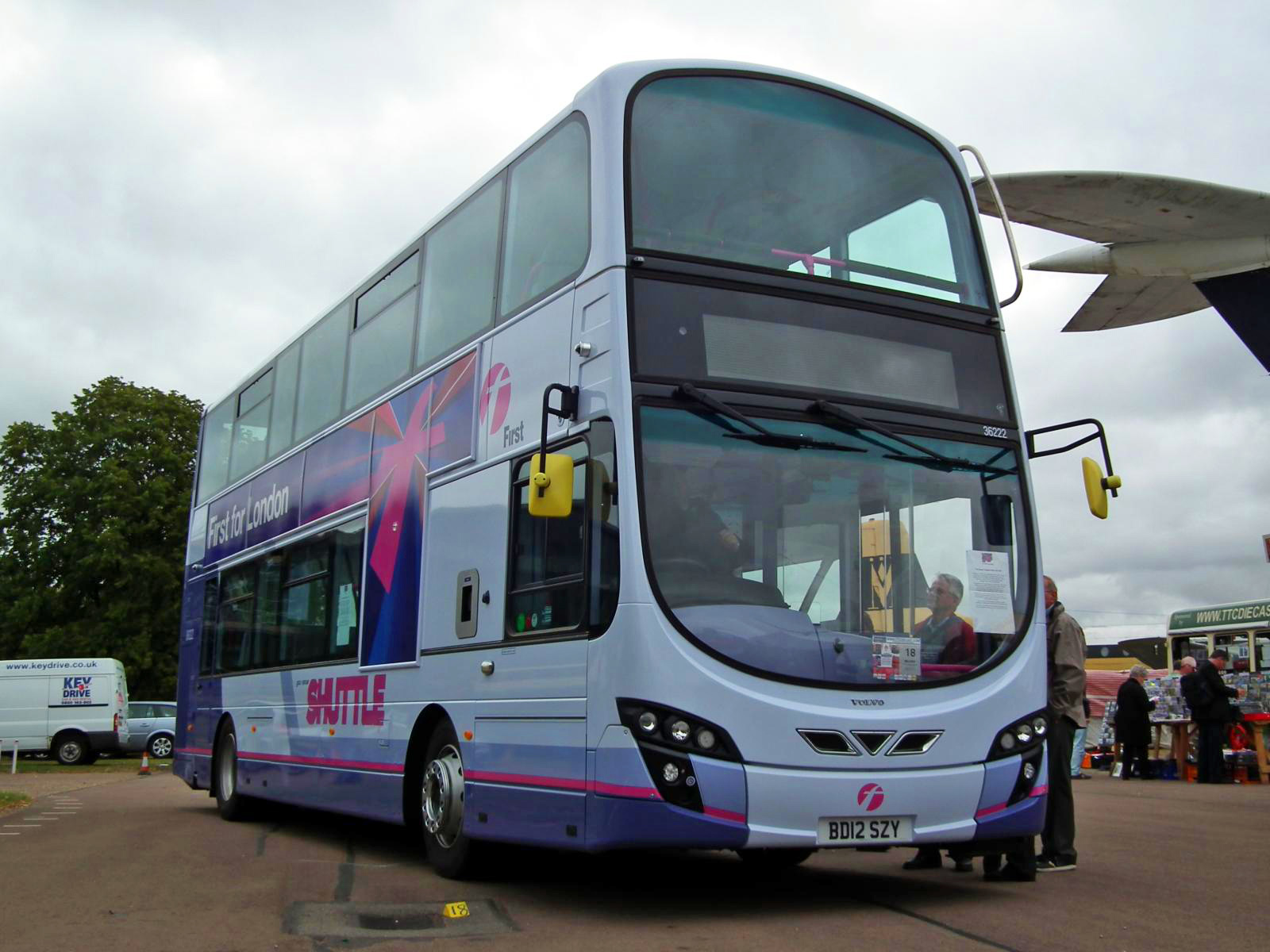 First Group 36222 (BD12 SZY), a Volvo B9TL/Wright Eclipse Gemini 2, seen at Showbus 2012.